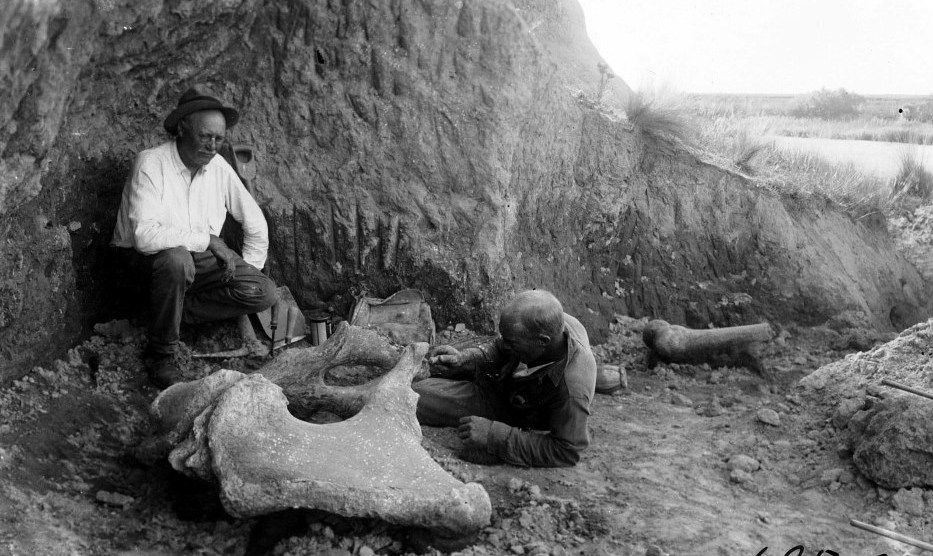 Elmer Riggs and unidentified man with the [Megatherium?? or Mammut] cordilleron pelvis, in situ. 1926. See Talk. Name of Expedition: 2nd Captain Marshall Field Paleontological Expedition Participants: Elmer S. Riggs (Leader and Photographer),Robert C. Thorne (Collector), Rudolf Stahlecker (Collector), Felipe Mendez Expedition Start Date: April 1926 Expedition End Date: November 1926 Purpose or Aims: Geology Fossil Collecting Location: South America, Argentina, Buenos Aires Original material: 5x7 inch glass negative Digital Identifier: CSGEO69518 Learn more about The Field Museum's Library Photo Archives.